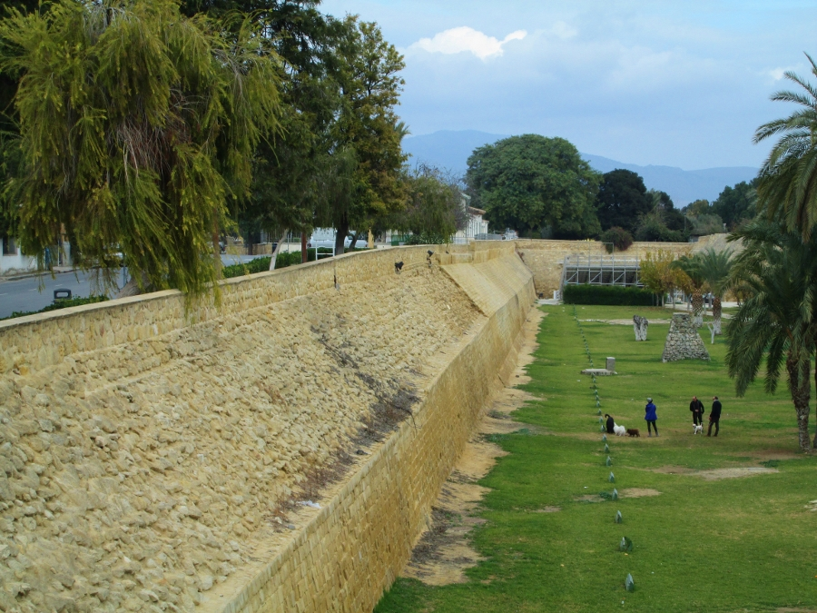 Venetian walls and green parks Nicosia Republic of Cyprus Kypros